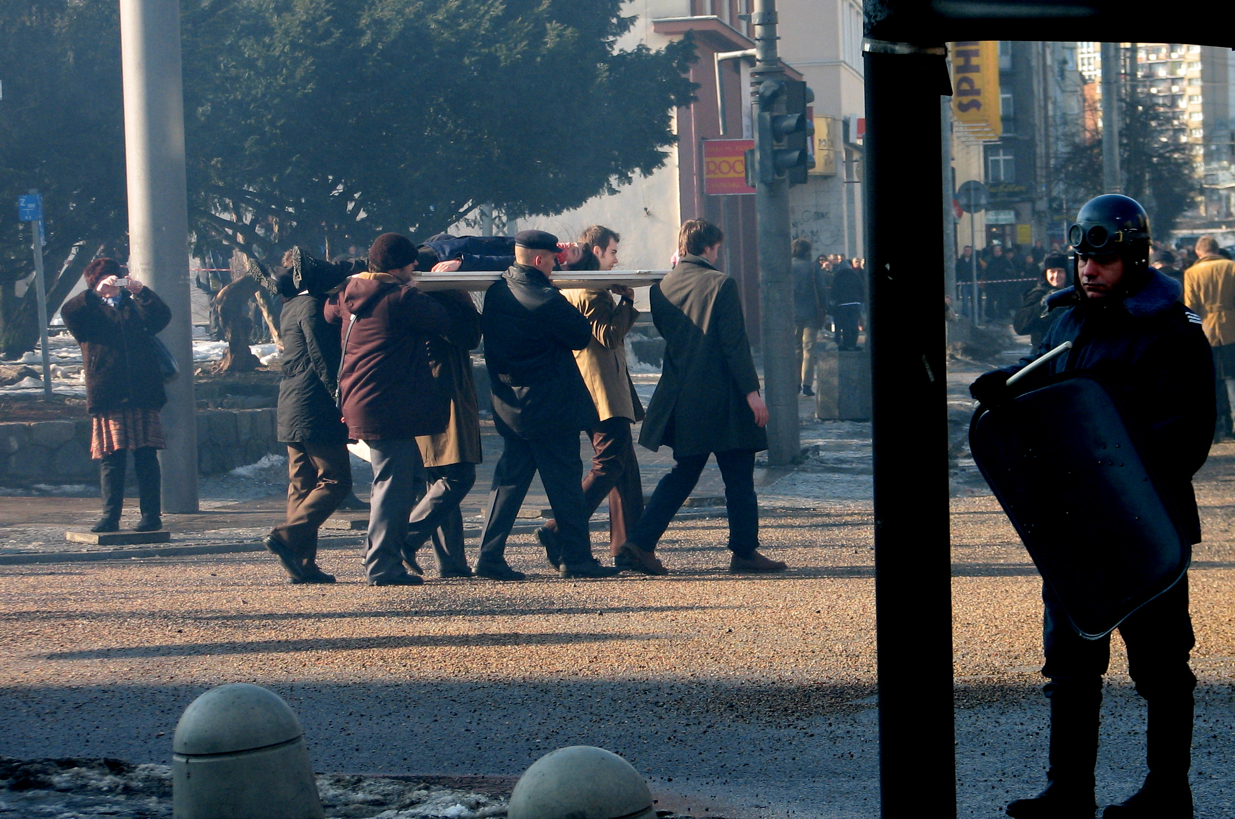 Filming of "Black Thursday" at the intersection of Świętojańska Street, Gdynia and 10 Lutego Street in Gdynia. People on this picture are actors, background actors, other workers of film crew or workers of subcontractors. "Black Thursday" is a film about Polish 1970 protests.